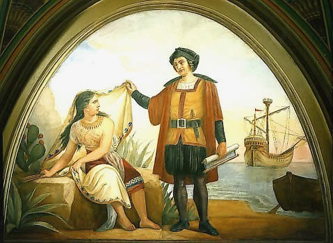 Columbus and the Indian Maiden